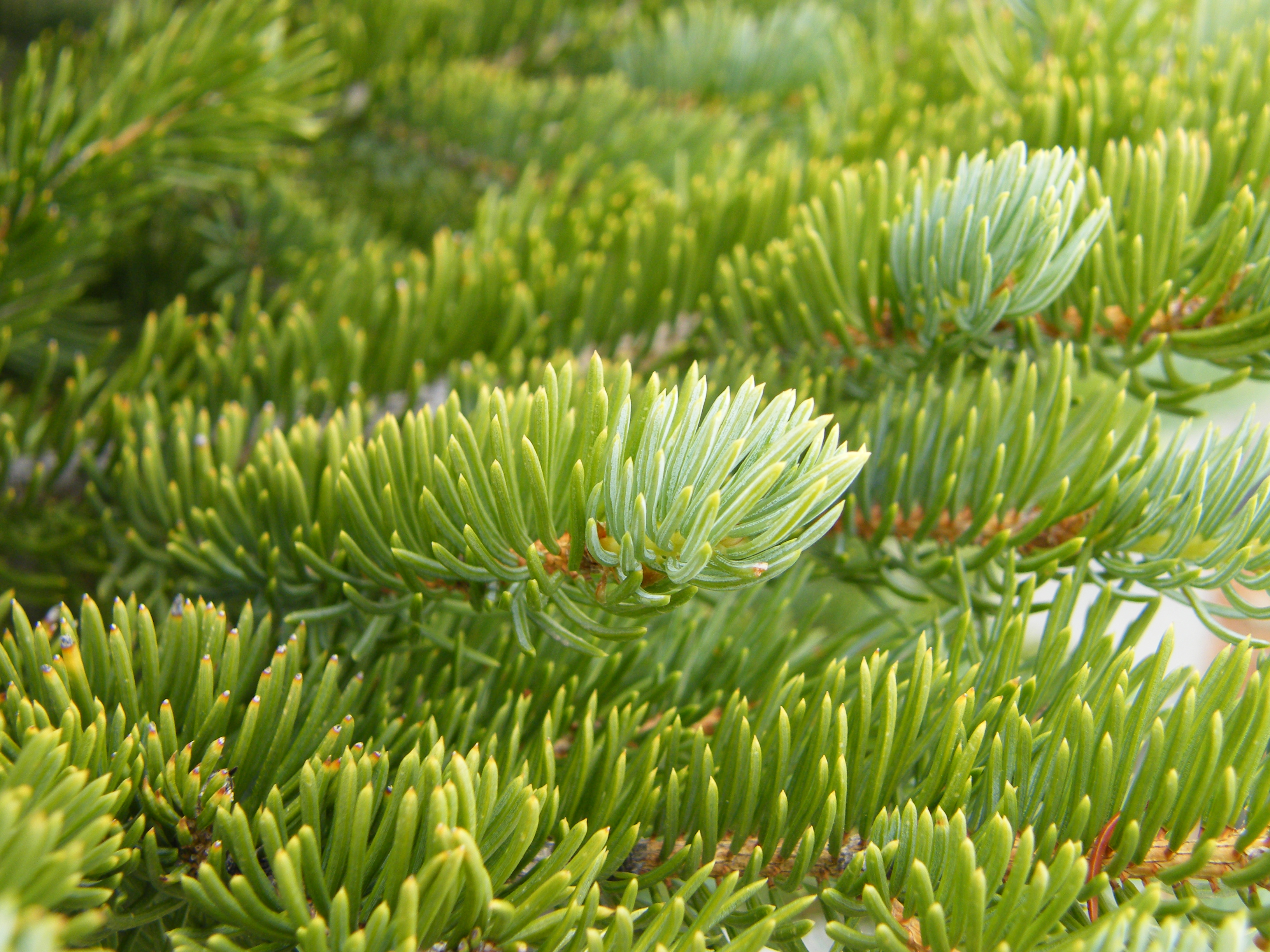 Picea engelmannii foliage. Burroughs Mountain, Mount rainier, Washington, USA.